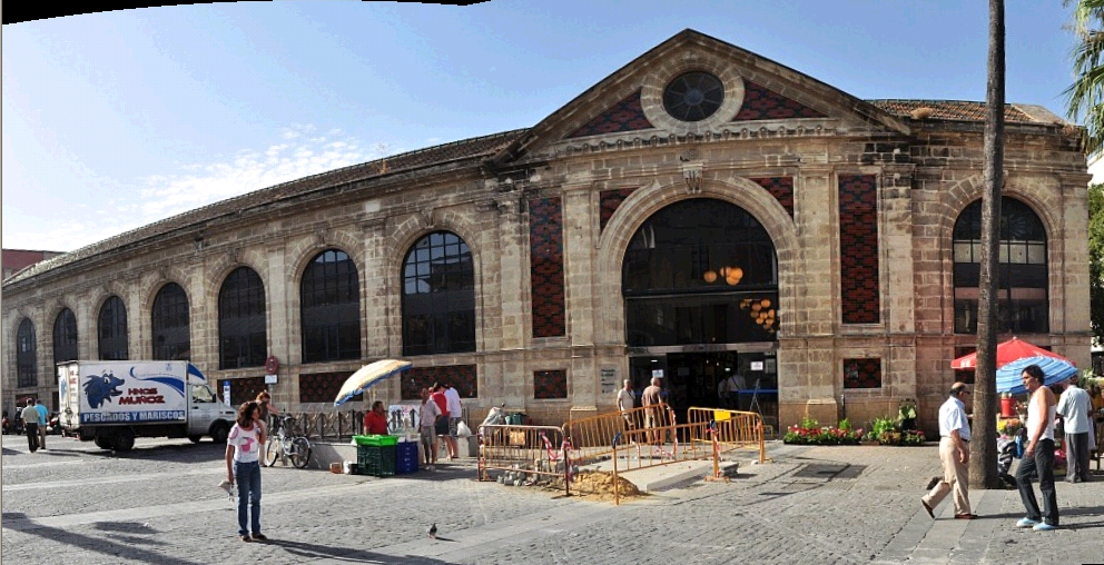 Central Market, Jerez de la Frontera